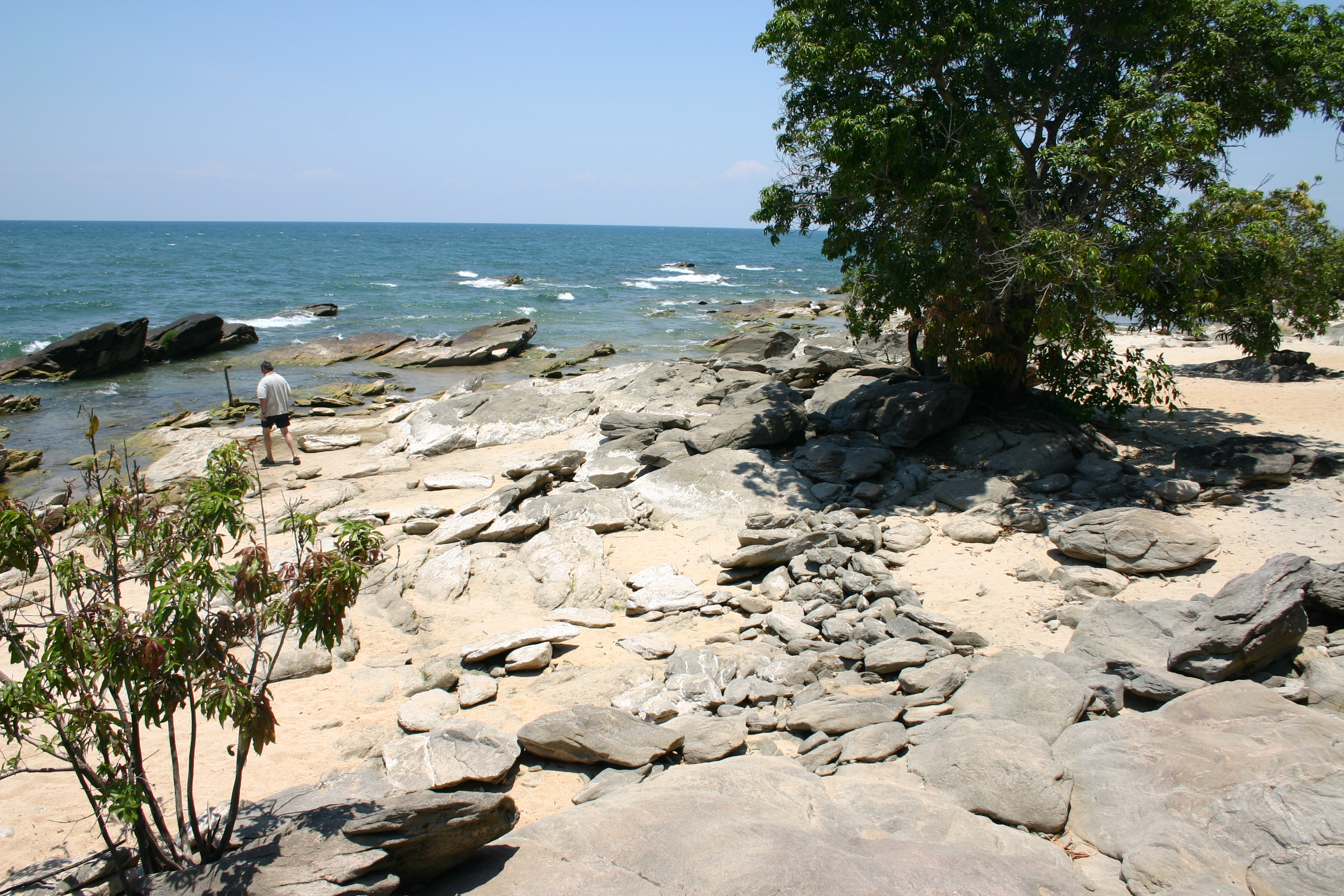 Rocky shore of Lake Malawi